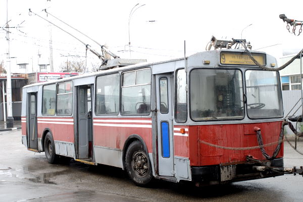 Model-ZIU-9 trolleybus number 080, of the Krasnodar, Russia, trolleybus system, is pictured in use as the second vehicle of coupled set of trolleybuses (multiple-unit operation). The coupling or tow bar and the cables that pass power from this vehicle (which is drawing power from the overhead wires) to the lead vehicle can be seen.